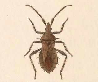 Biologia Centrali-Americana - Vilga mexicana Cut-out from original (Biologia Centrali-Americana (8272542580).jpg) shown below